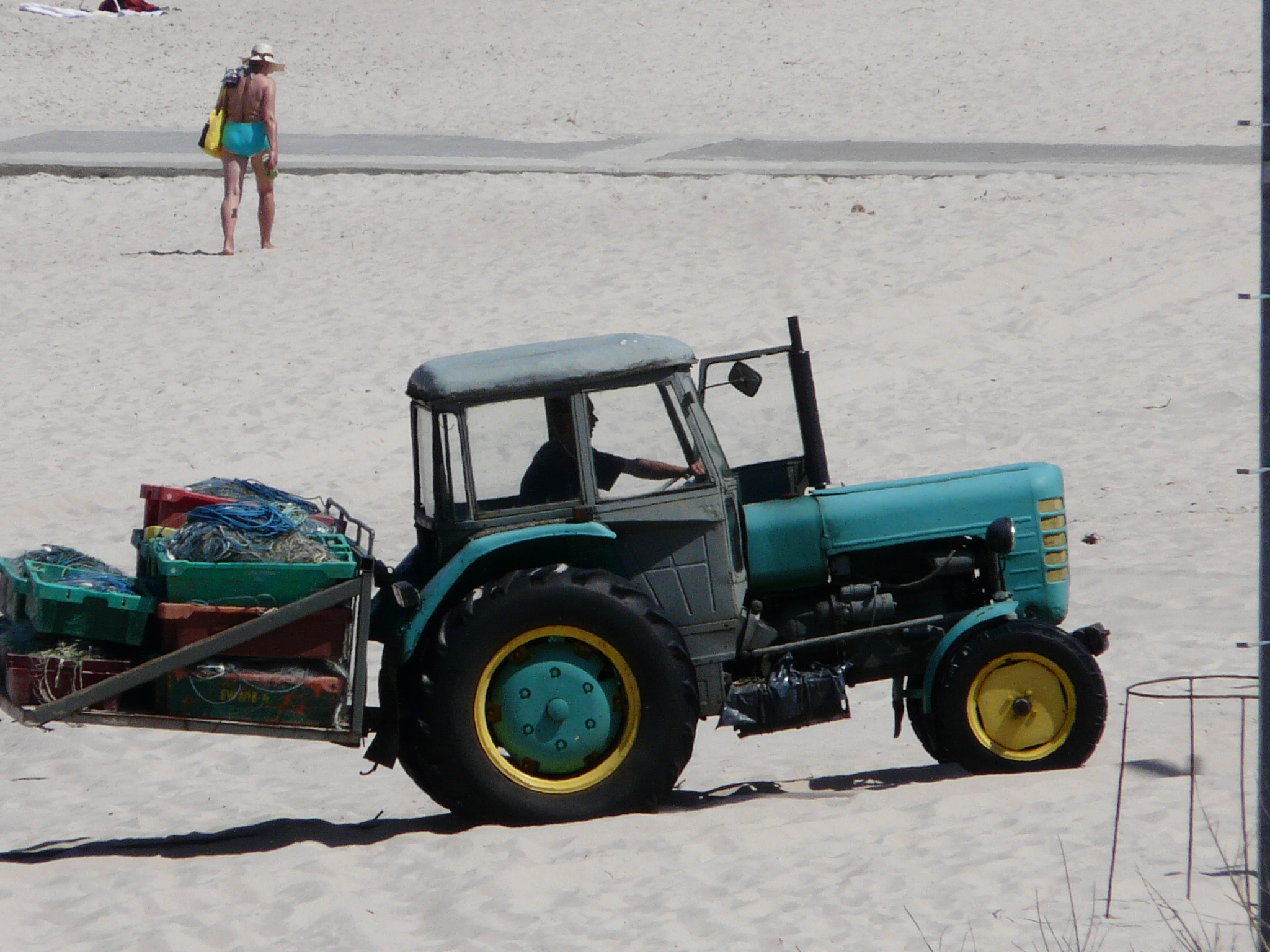 Ursus C-4011 traktor in Niechorze beach, Poland.